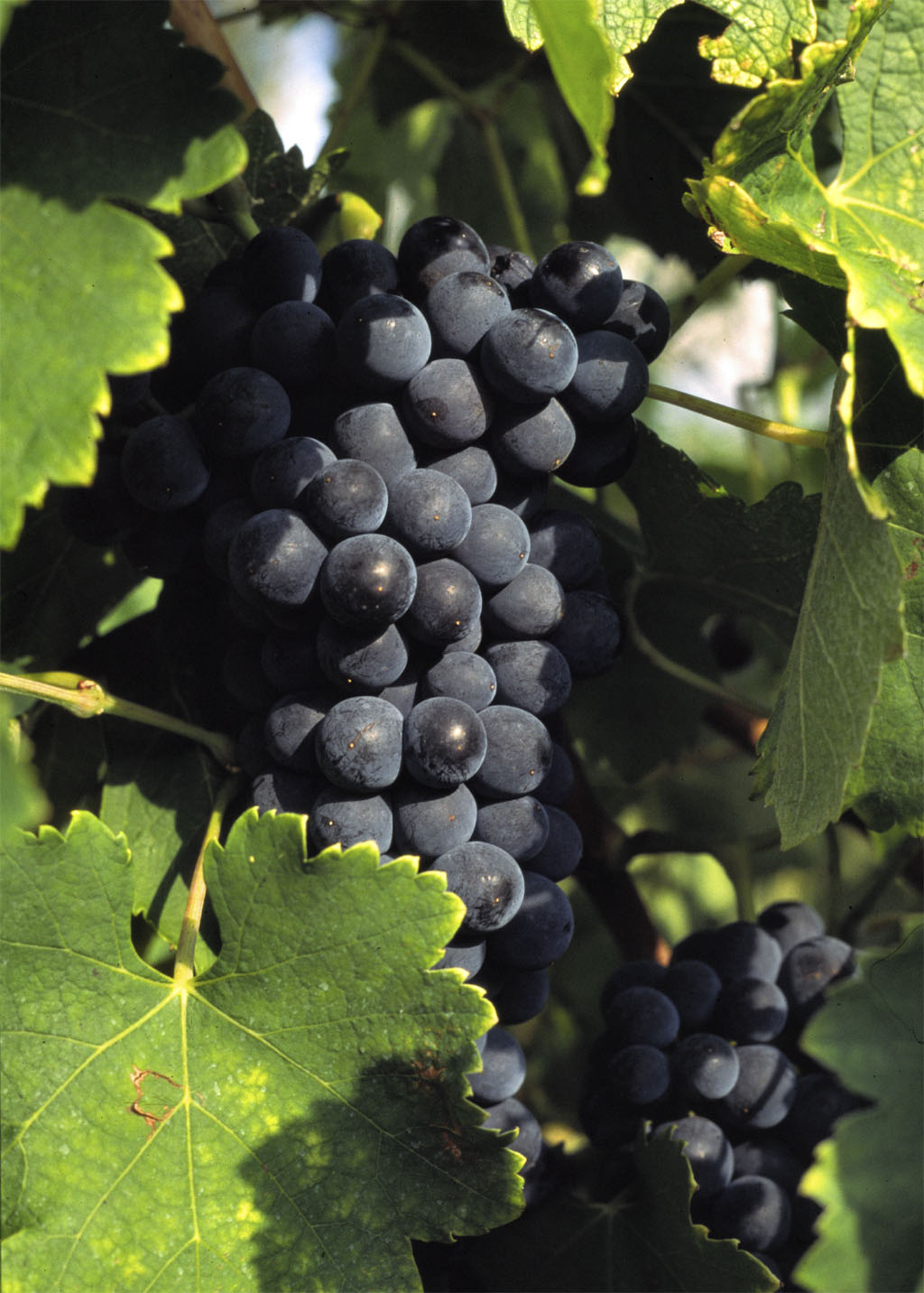 Grapes of the variety Fer Servadou, also known as Braucol